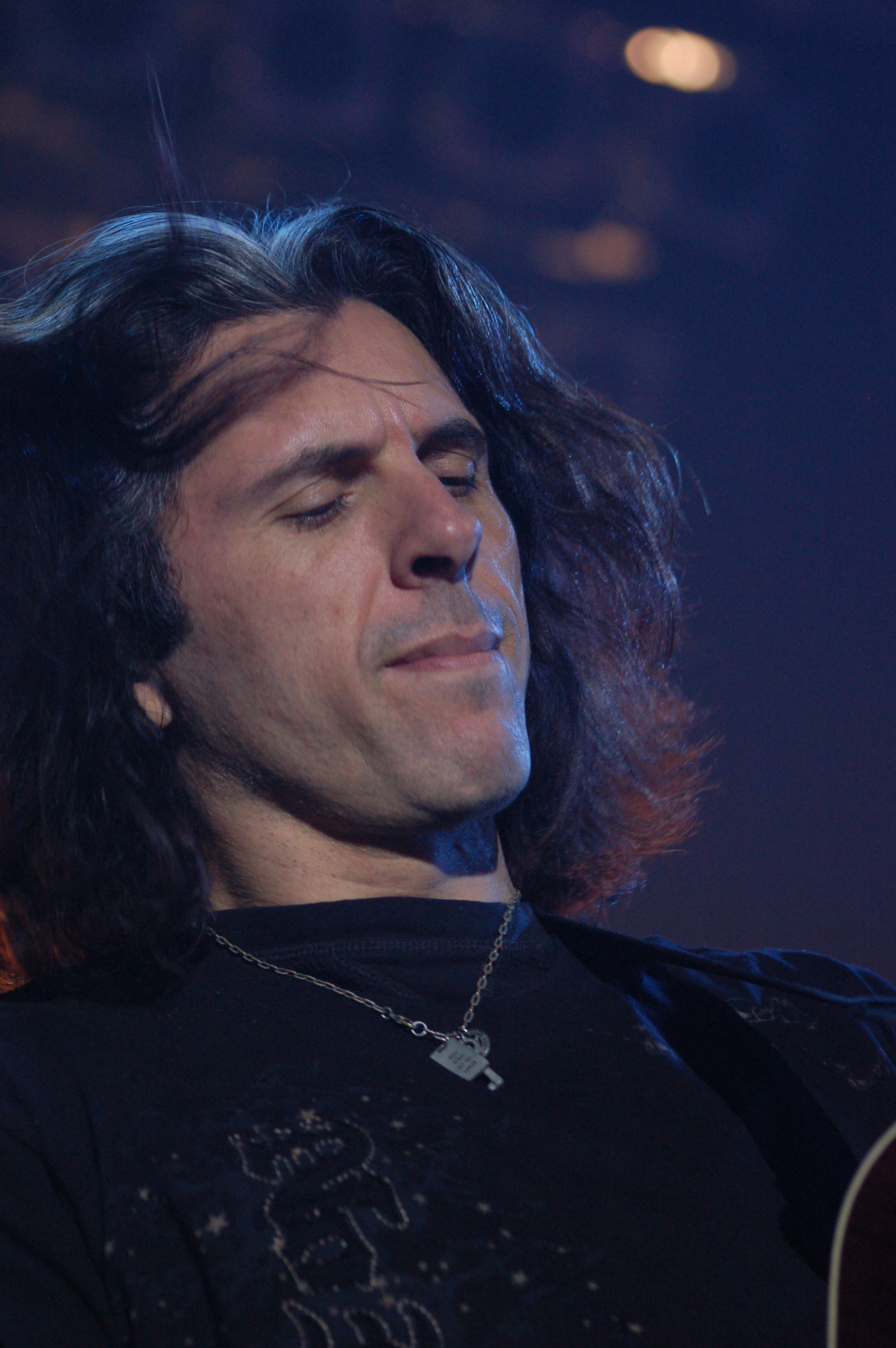 Alex Skolnick from Testament during Metalmania 2007 festival